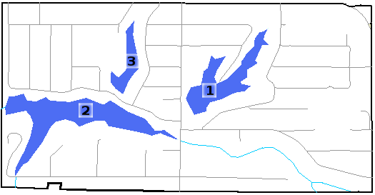 Map of the Lakes of Royal Lakes, Illinois; created by User:Acntx. 1) Meshach Lake 2) Shad Lake 3) Shadrach Lake, I created this image entirely by myself.Sunday, March 14, 2010